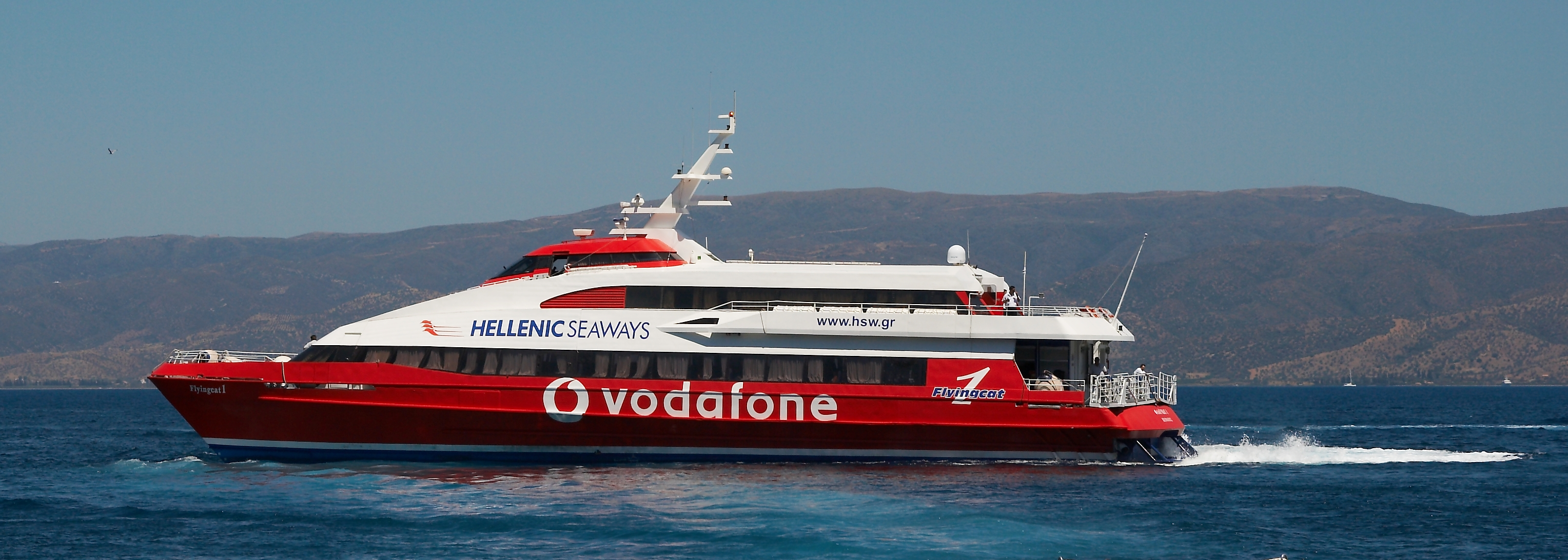 Hellenic Seaways Flyingcat 1 departing from Hydra's port. Type: Passenger catamaran Year of built: 1991 Country of built: Norway Length: 40m Width: 10.10 m Speed: 30 Passenger capacity: 352 IMO-No:8916865